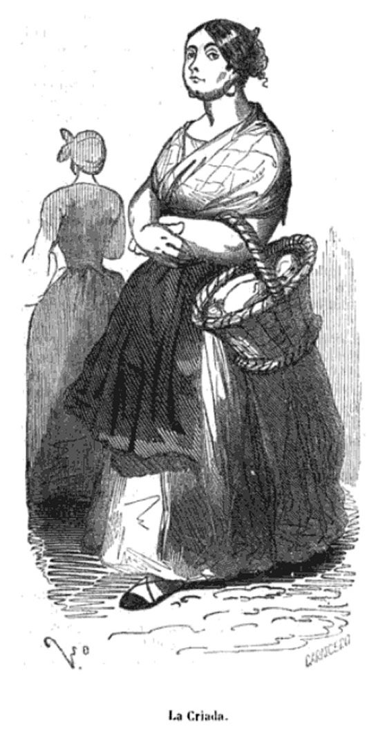 "La Criada", from the book Los Españoles pintados por sí mismos.